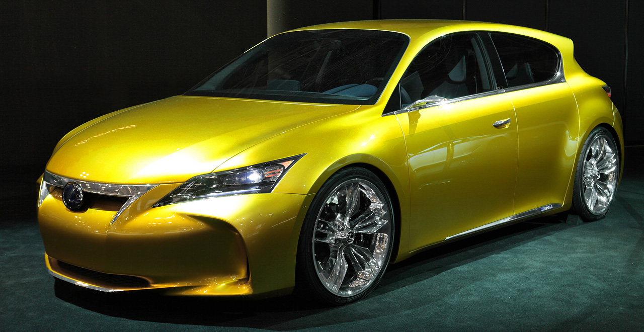 Lexus LF-Ch at Tokyo Motor Show.